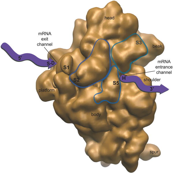 Chloroplast ribosome + Predicted Location of Chloroplast-Unique Structures and Their Proximity to Functionally Important Regions of the Small Ribosomal Subunit